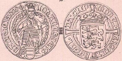 Silver coin (gylden) of John of Denmark, Norway, Sweden, c. 1500. (p.135)